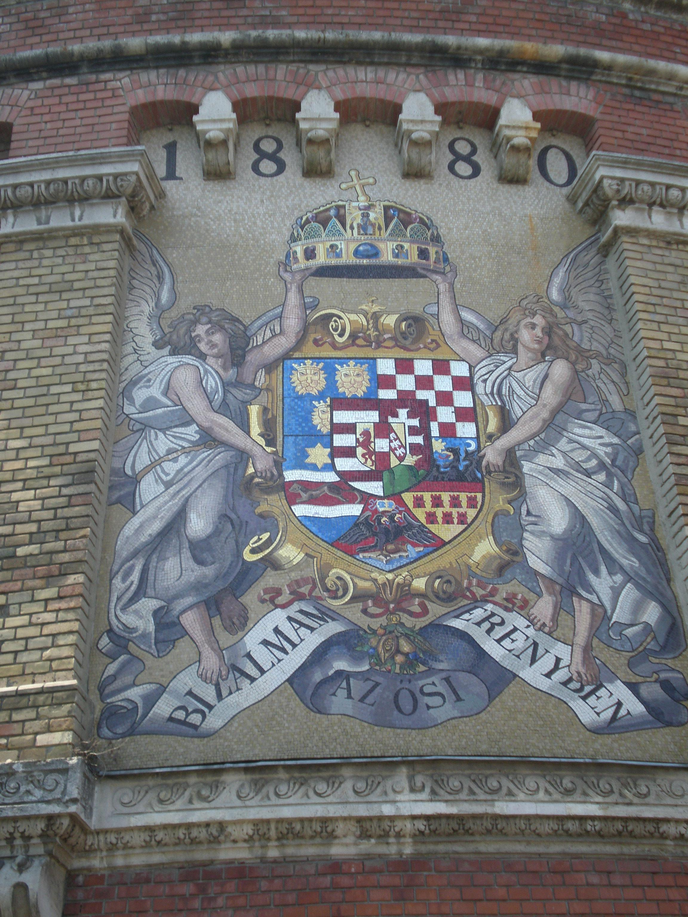 Coat of arms of Kingdom of Hungary. Painting 1880, Budapest, near Buda Castle.